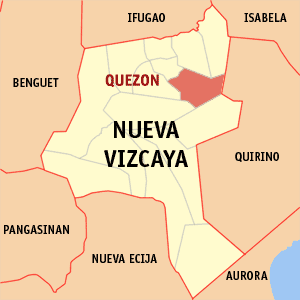 Map of Nueva Vizcaya showing the location of Quezon